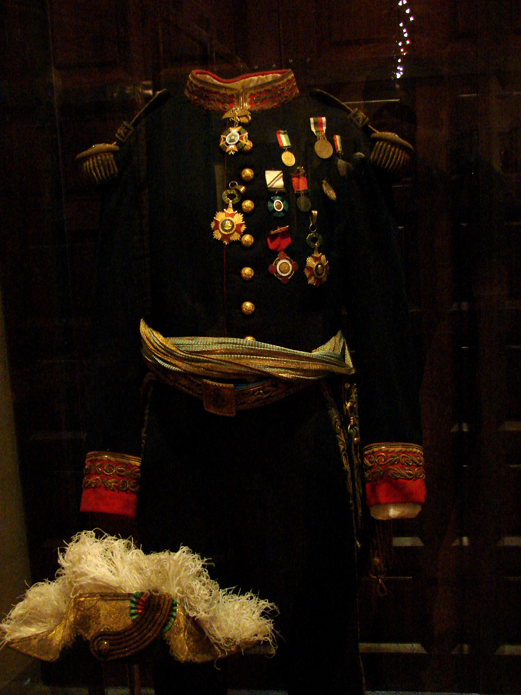 Uniform of the former President of México, Porfirio Díaz Mori (1830-1915), exhibited in the Museum of Santo Domingo in the city of Oaxaca, Oaxaca, México.